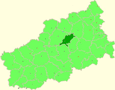 Tver Oblast map by Al Silonov